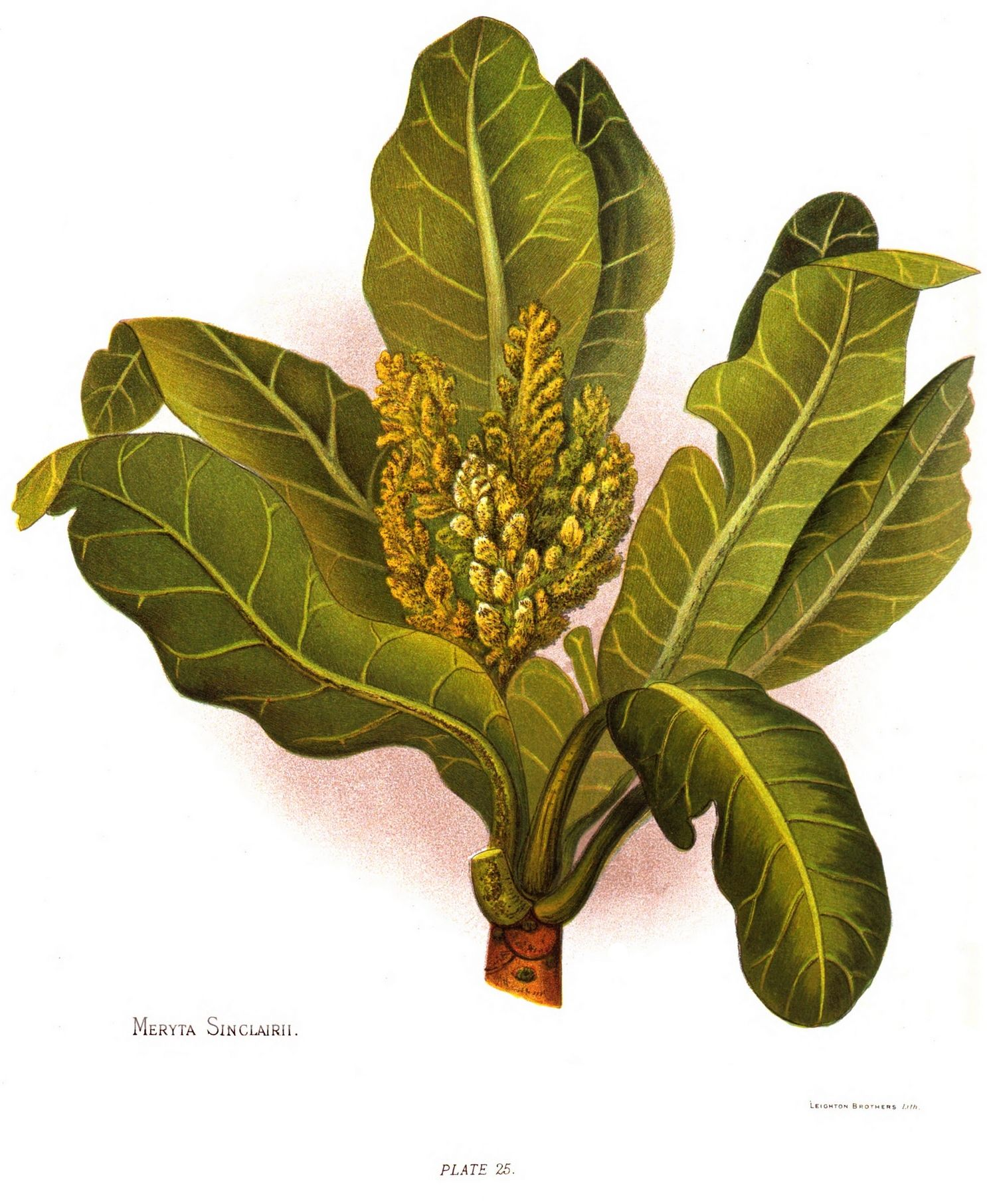 meryta sinclairii